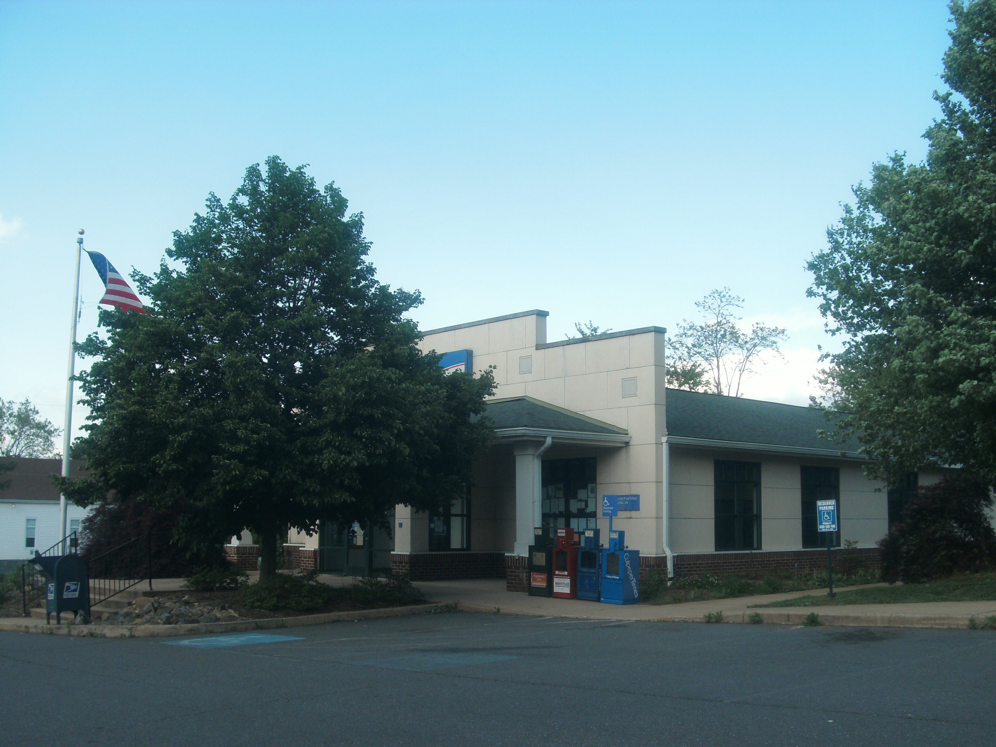 Taken by me in May, 2016 GEDSC DIGITAL CAMERA